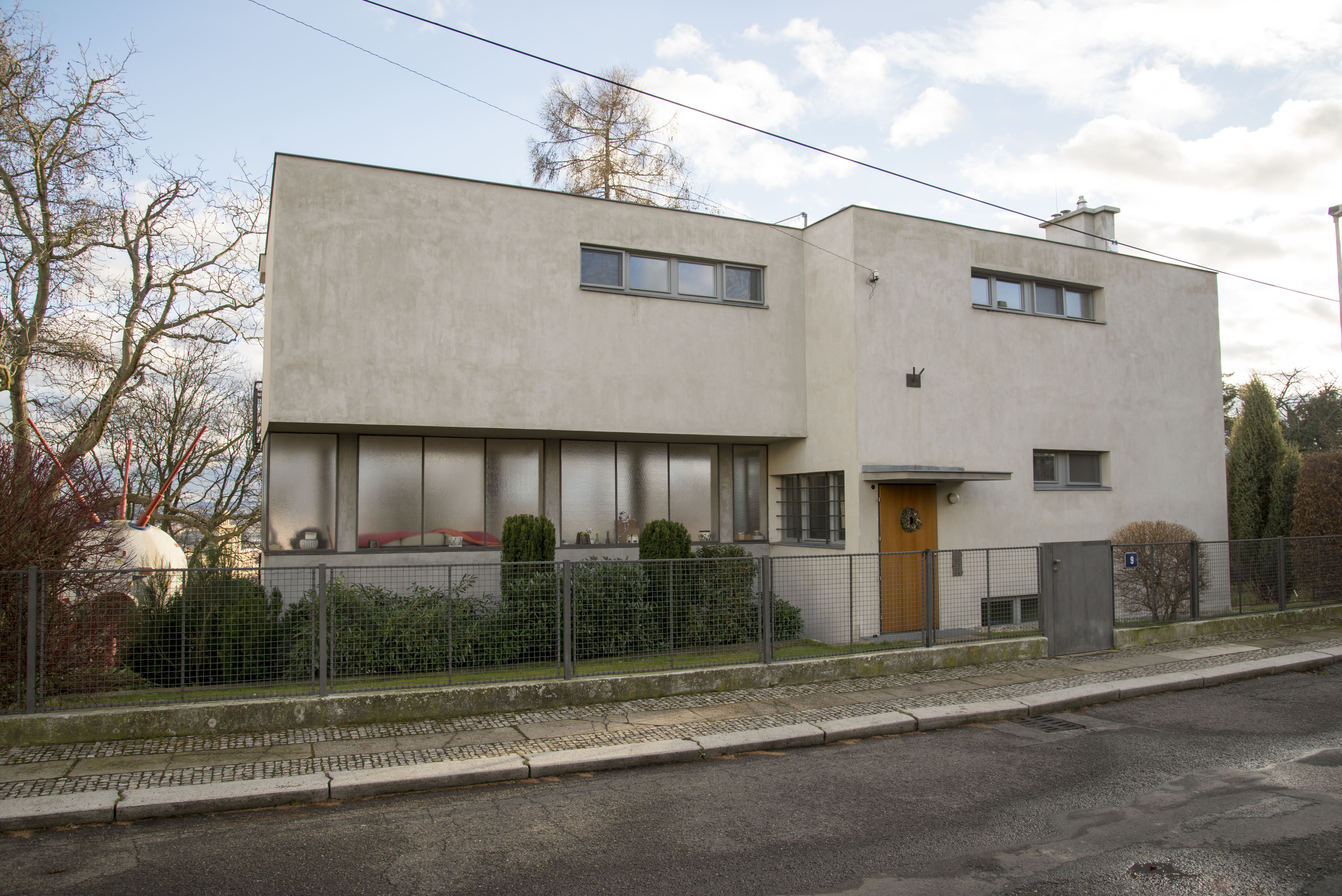 Osada Baba (Baba Functionalism colony in Prague) - House Palička